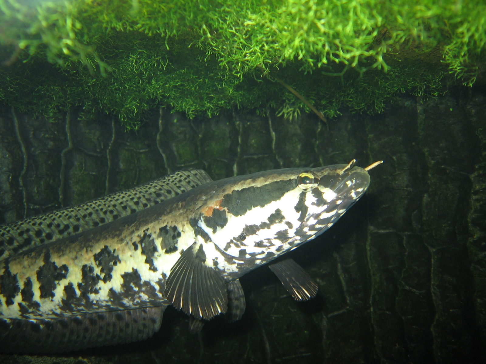 Channa asiatica, Czech Republic. Determination incorrect! Probably Parachanna obscura, vgl. z. B.